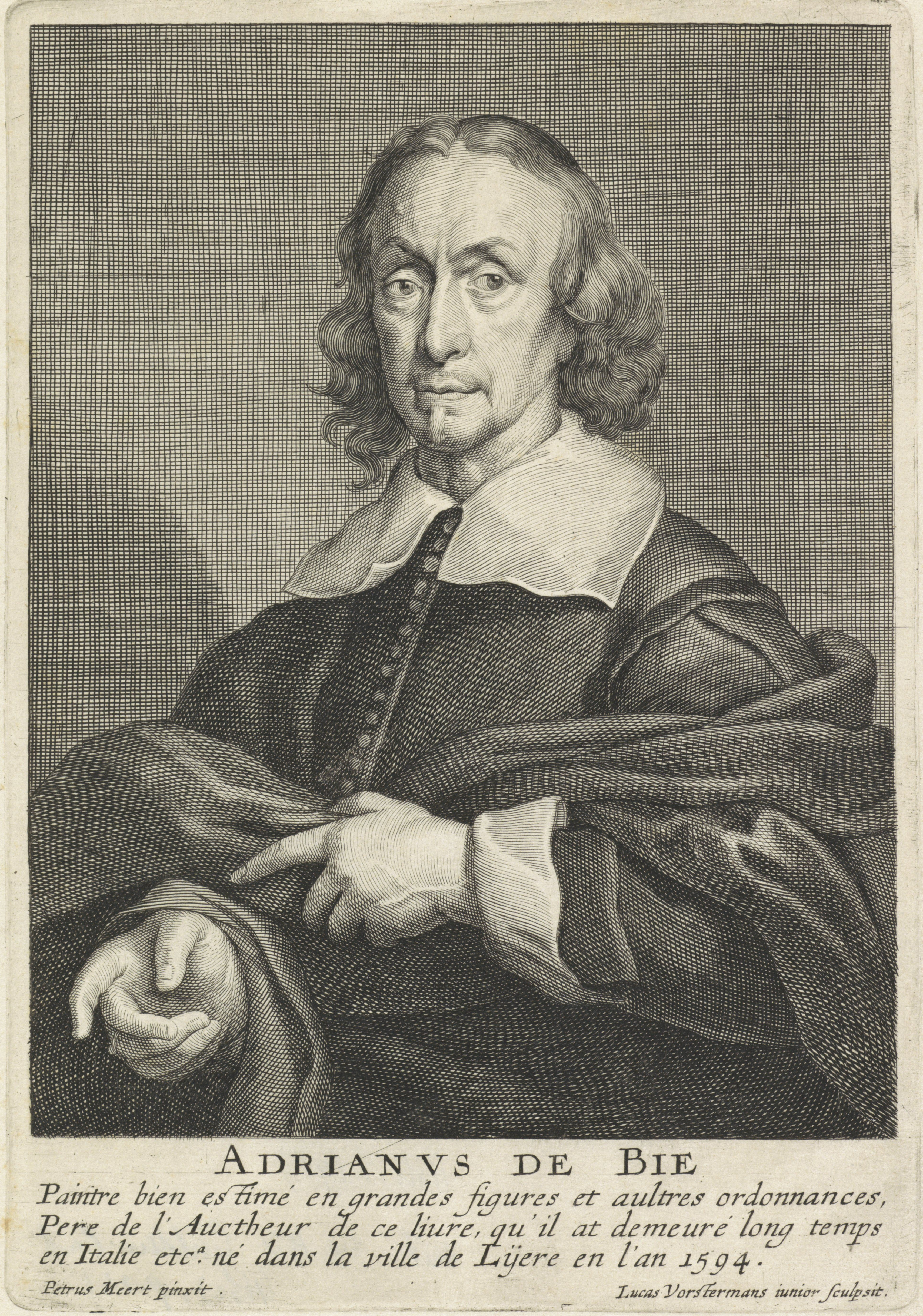 Adriaen de Bie (1593-1668), father of the writer Cornelis de Bie.